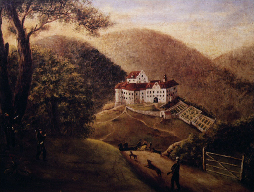 Pišece Castle